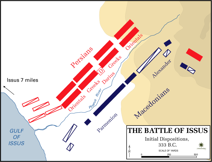 The Battle of Issus, Initial dispositions.